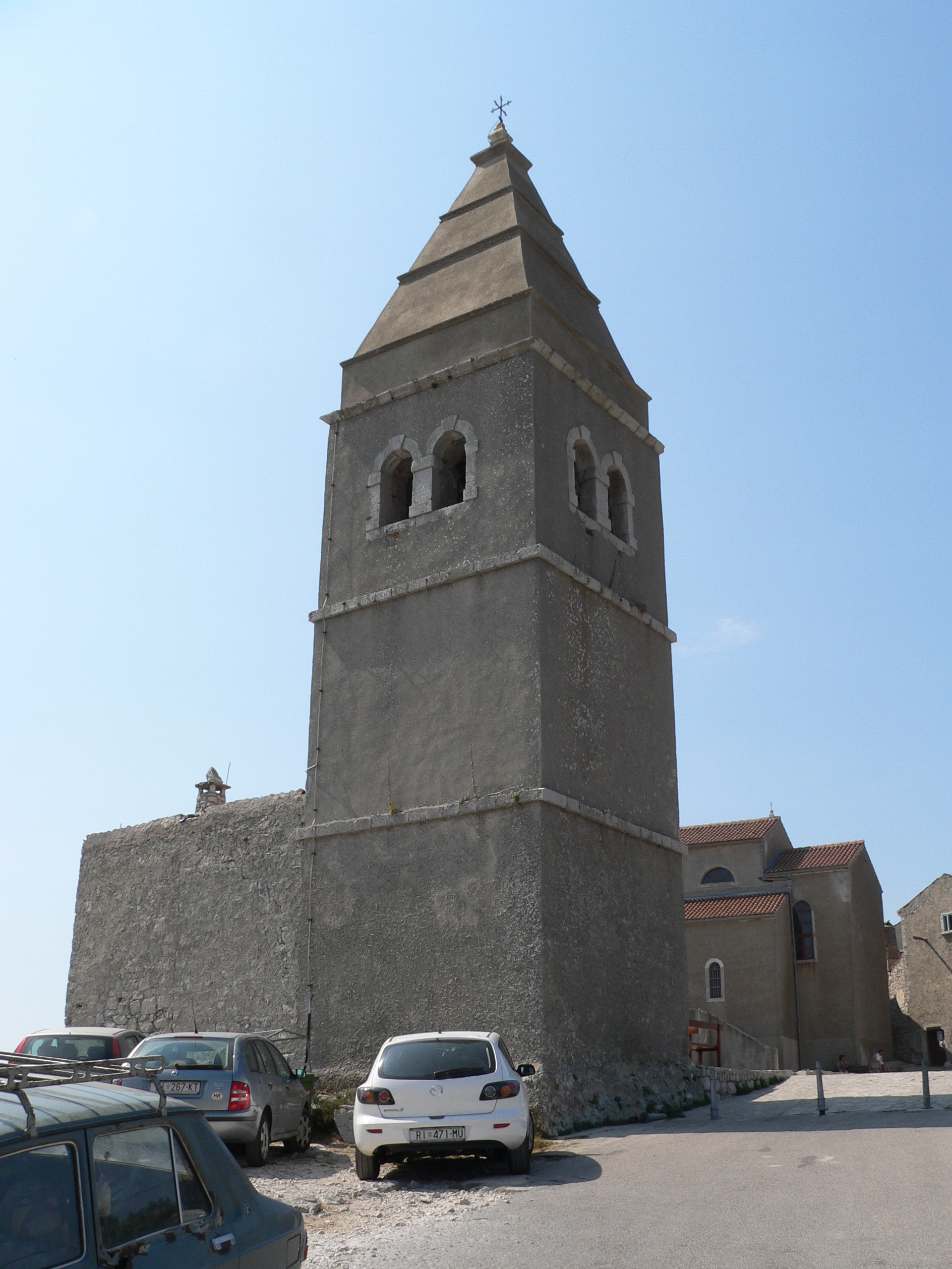 Tower in Lubenice on Cres island